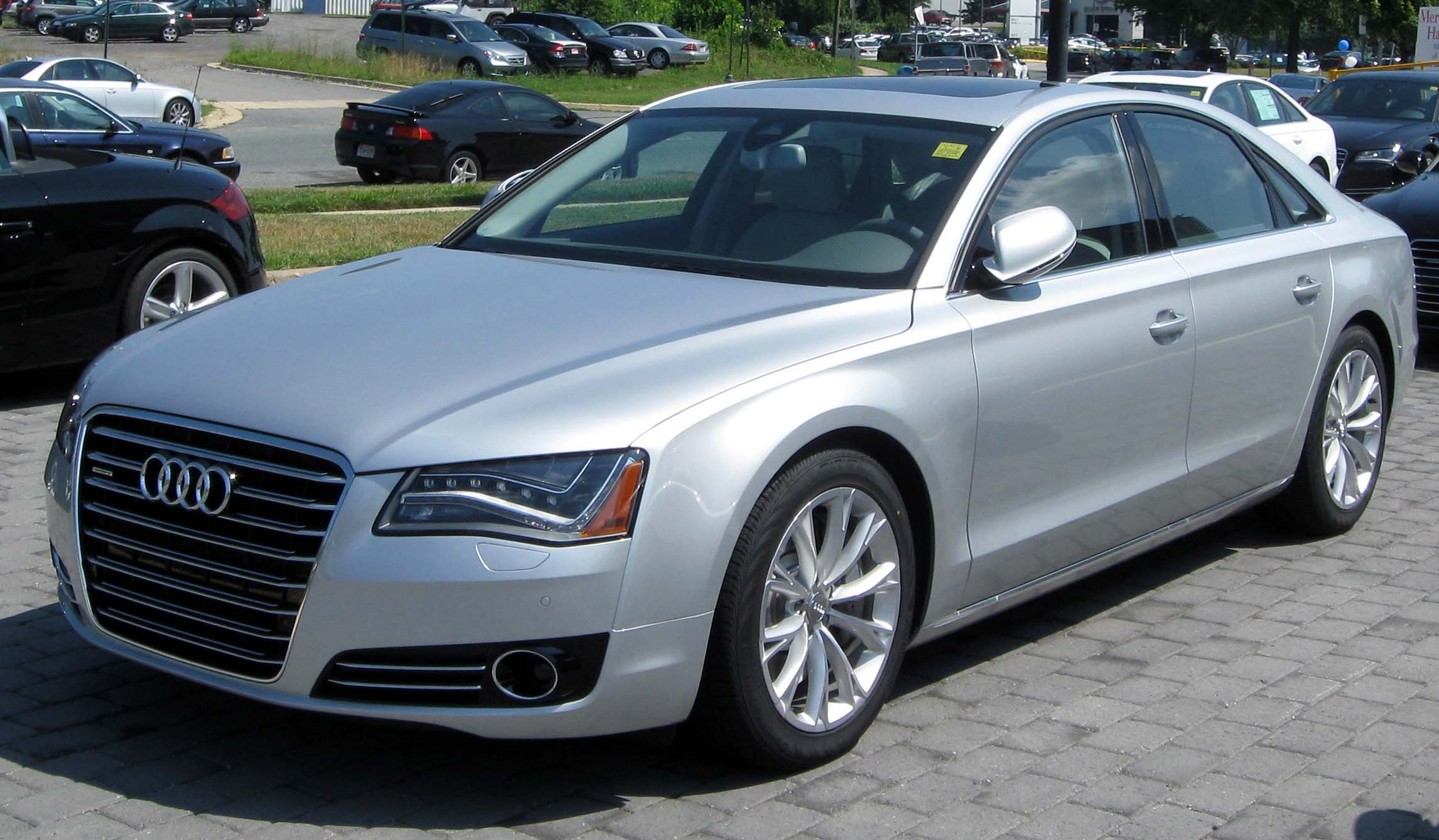 2011 Audi A8 photographed in Silver Spring, Maryland, USA.